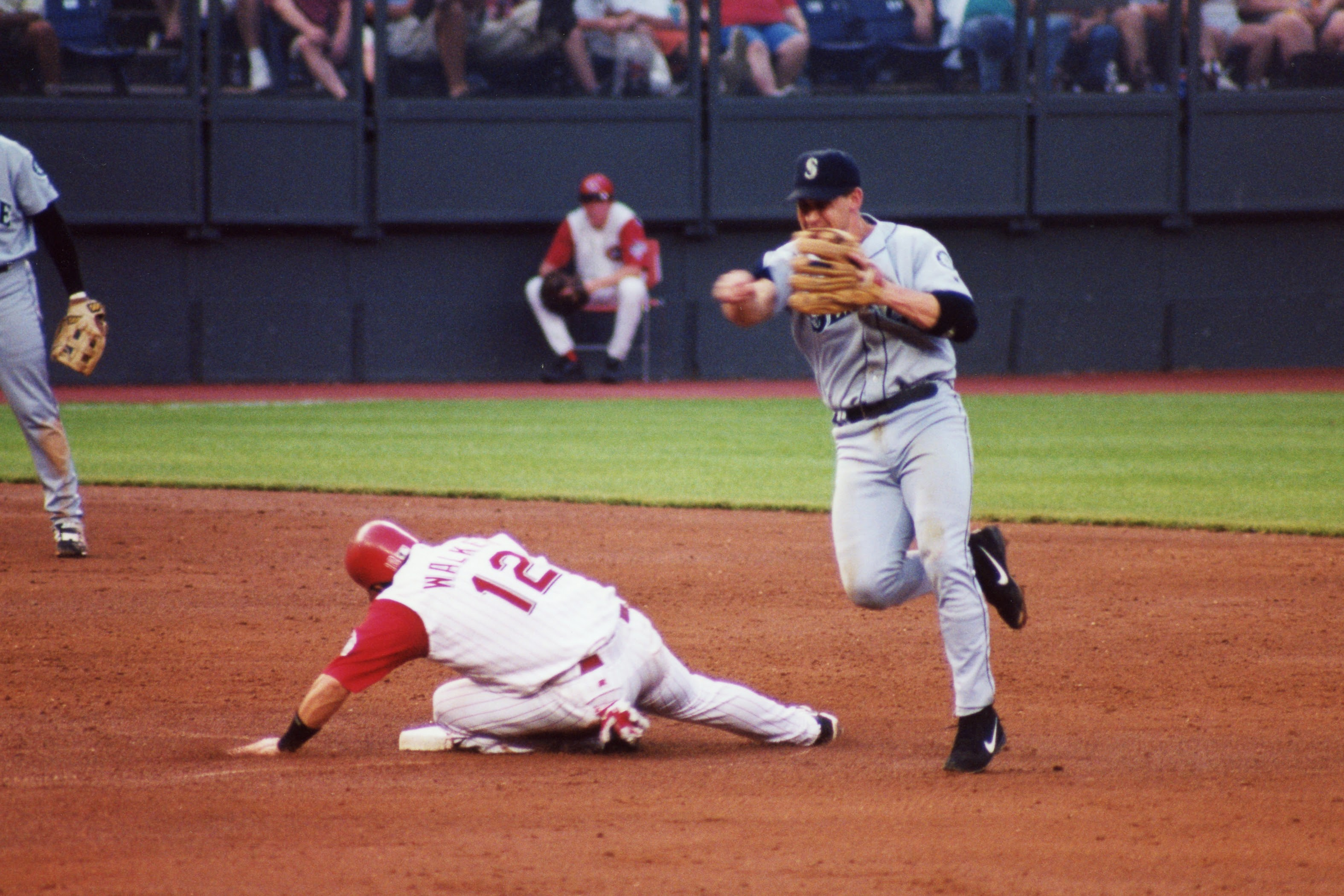 Cincinnati Reds second baseman Todd Walker slides to the base as Seattle Mariners second baseman Bret Boone turns a double play at Cinergy Field in Cincinnati on June 19, 2002